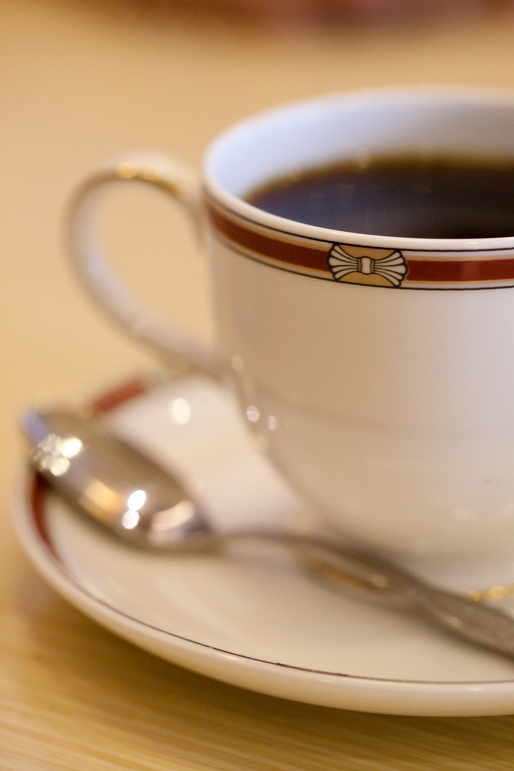 Known for being able to deliver the "Good Coffee Smile", UCC is well known in Japan and in various countries across Asia. I heard of UCC well before my trip to Manila and I obviously had to try it when I finally got there. What can I say, that simple cup of coffee did not disappoint. It definitely brought out that "Good Coffee Smile" even though it was a very warm 30c February day.